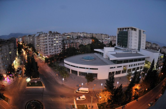 Kahramanmaraş town center